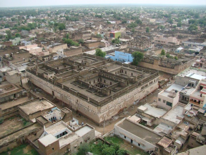 Arial View from Fort